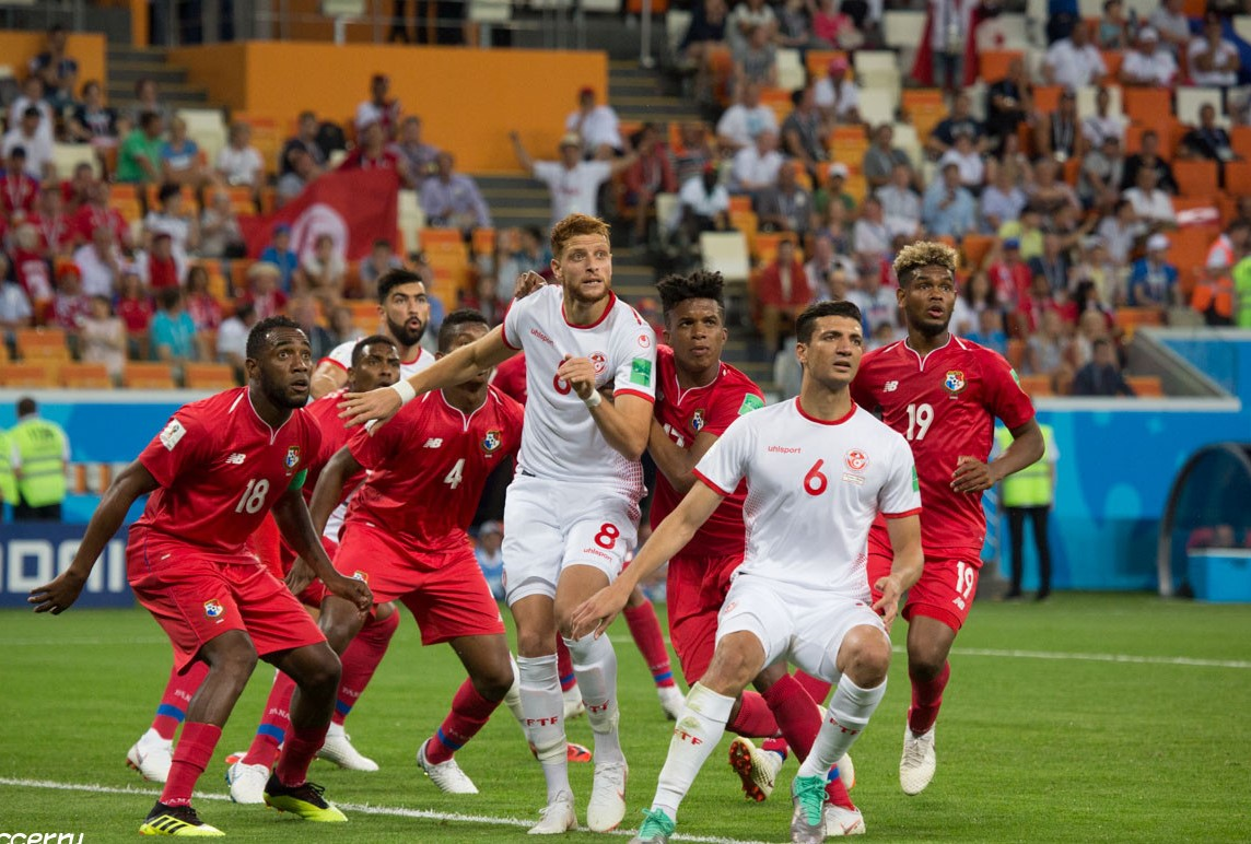 2018 FIFA World Cup Match 46, Panama v Tunisia